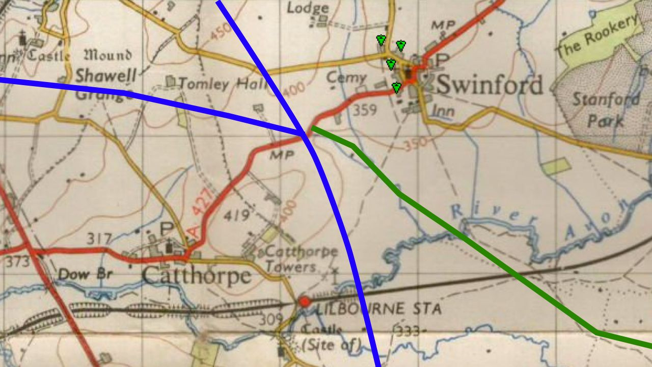 1940s map of the location of the Catthorpe Interchange showing the route of the A427 road